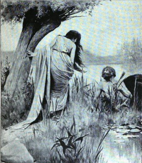 sketch done by Howard Pyle c. 1888 of "Deianeira and the dying centaur Nessus"